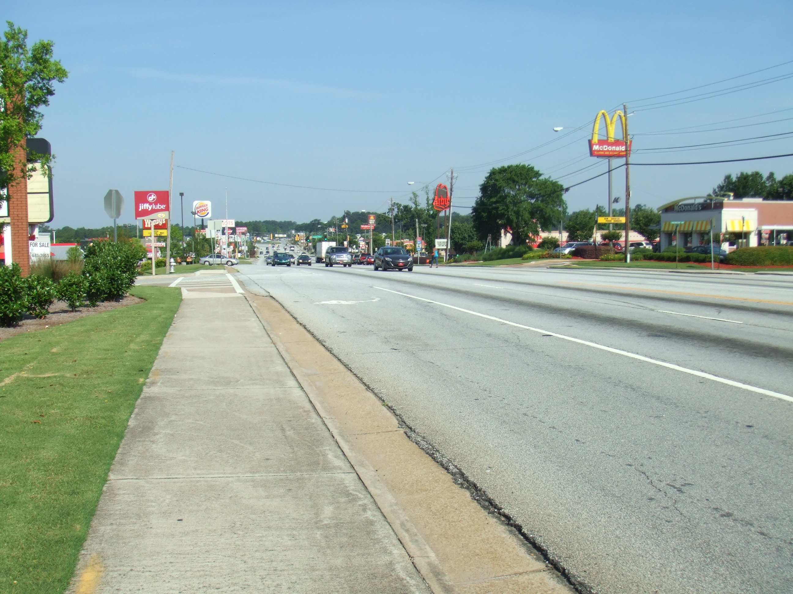 Union City, Georgia, 2013